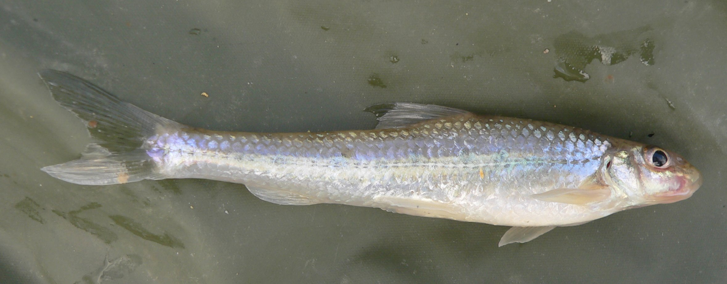 A white-finned gudgeon (Romanogobio belingi). Here the fish is just caught and doesn't show many dark markings like in the picture File:Witvingrondel10-7.JPG. Size: 10.8 cm